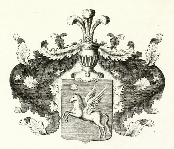 Coat of arms of the Soymonov family.